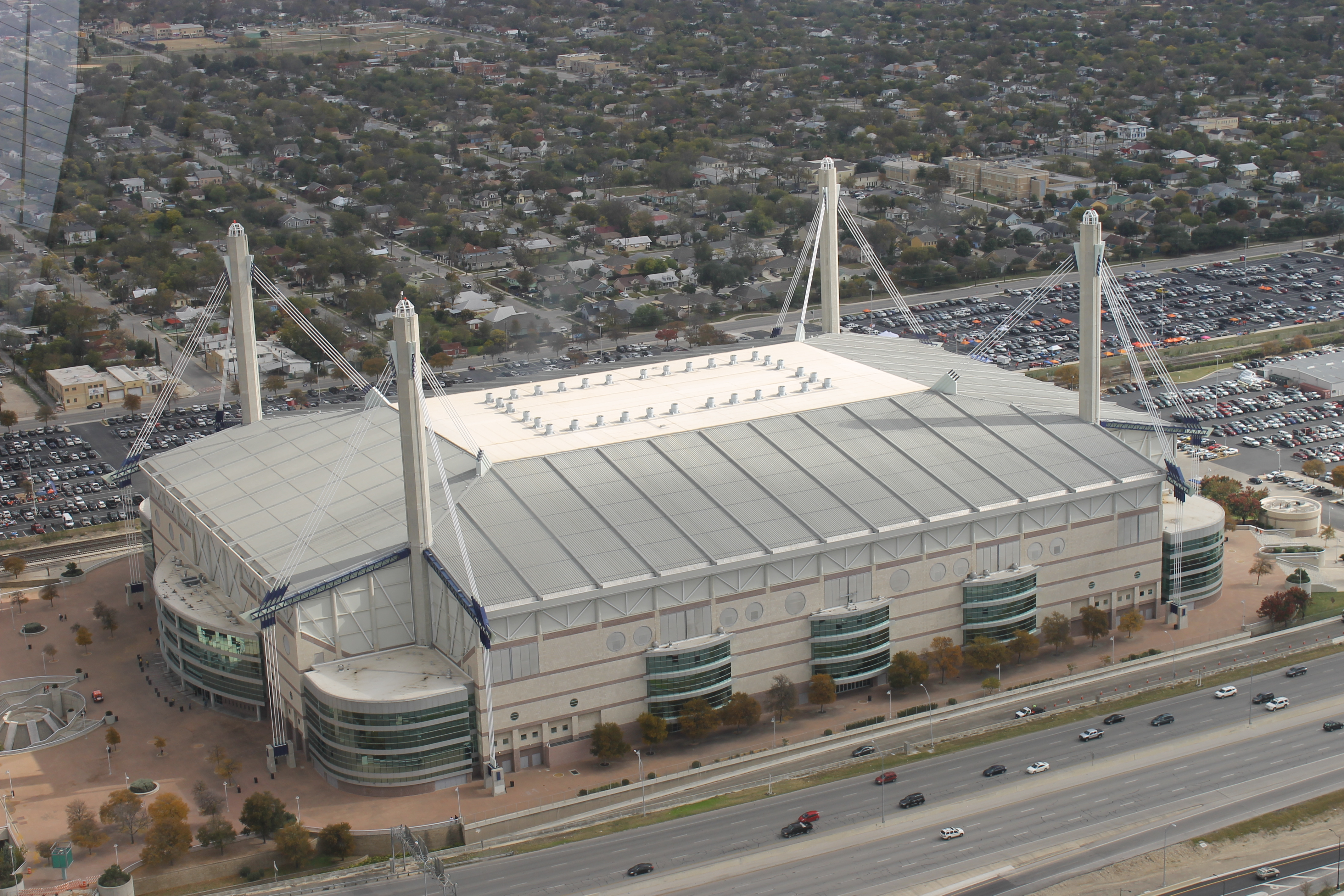 The Alamodome from the Tower of the Americas in San Antonio, TX